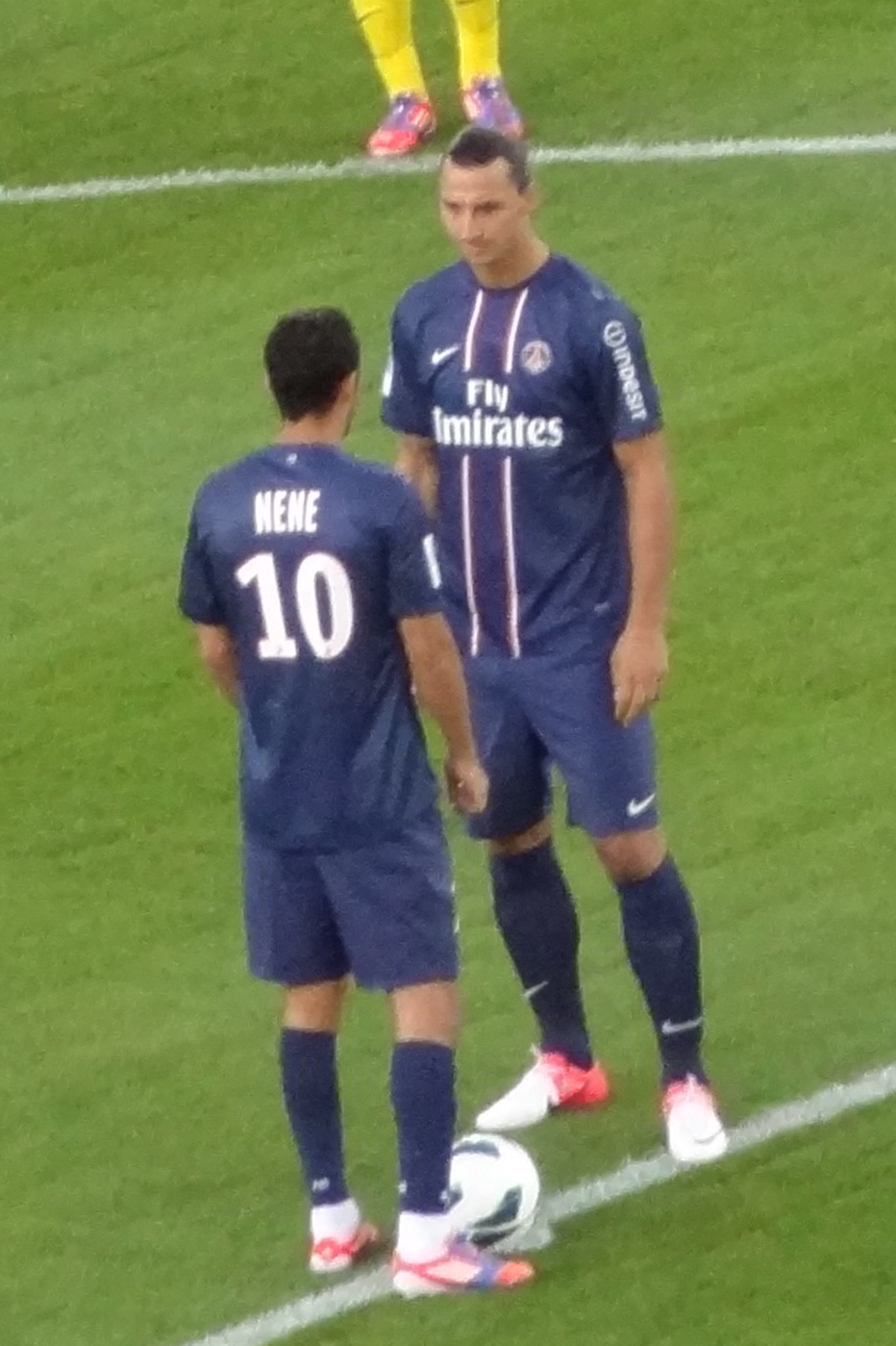 Nenê & Ibrahimović (PSG)